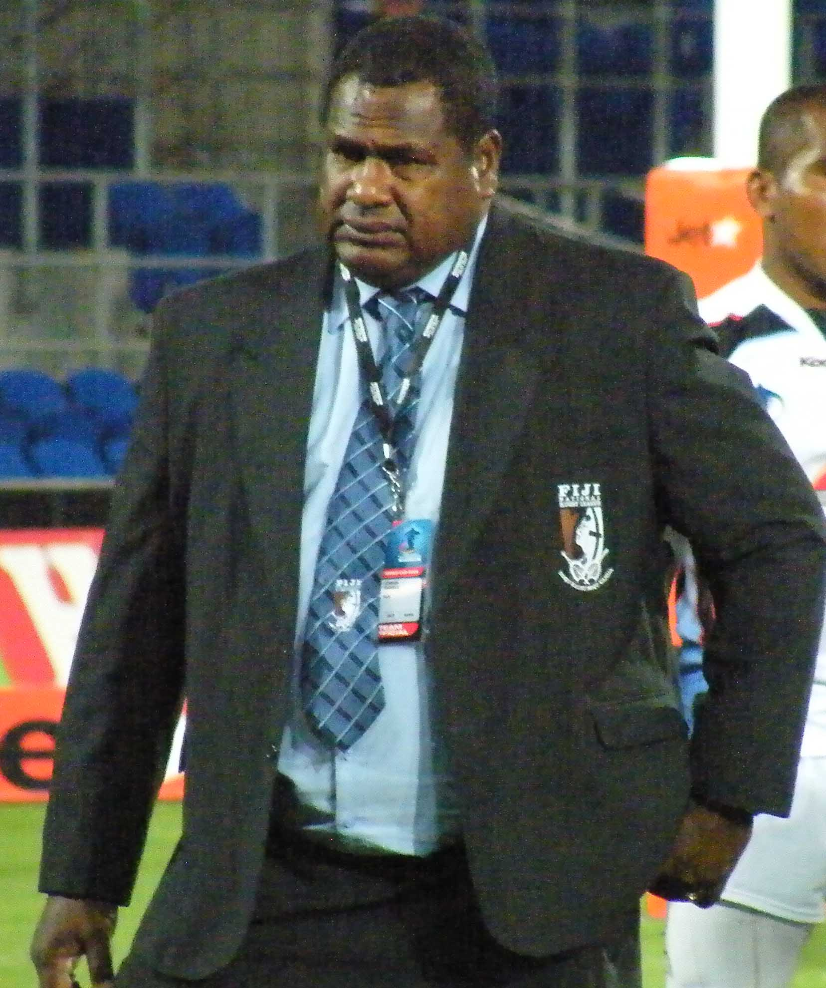 RLWC - Fiji v Ireland, Gold Coast 2008. Fijian Coach Joe Dakuitoga.